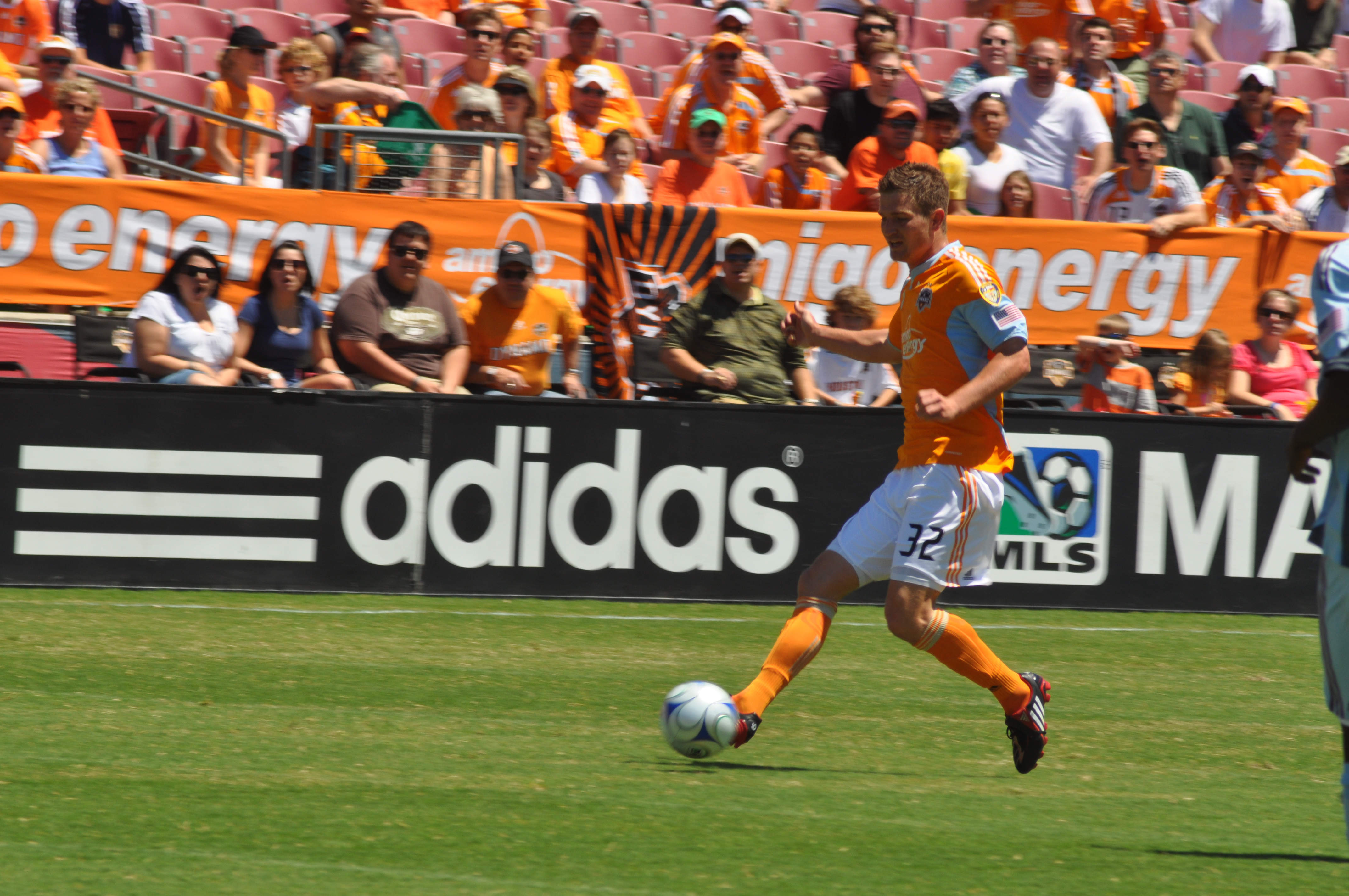 An action shot from the April 19 2009 Major League Soccer game between Houston Dynamo and the Colorado Rapids.